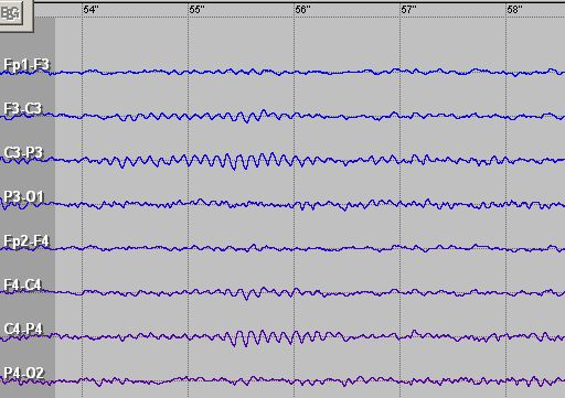 EEG alpha activity